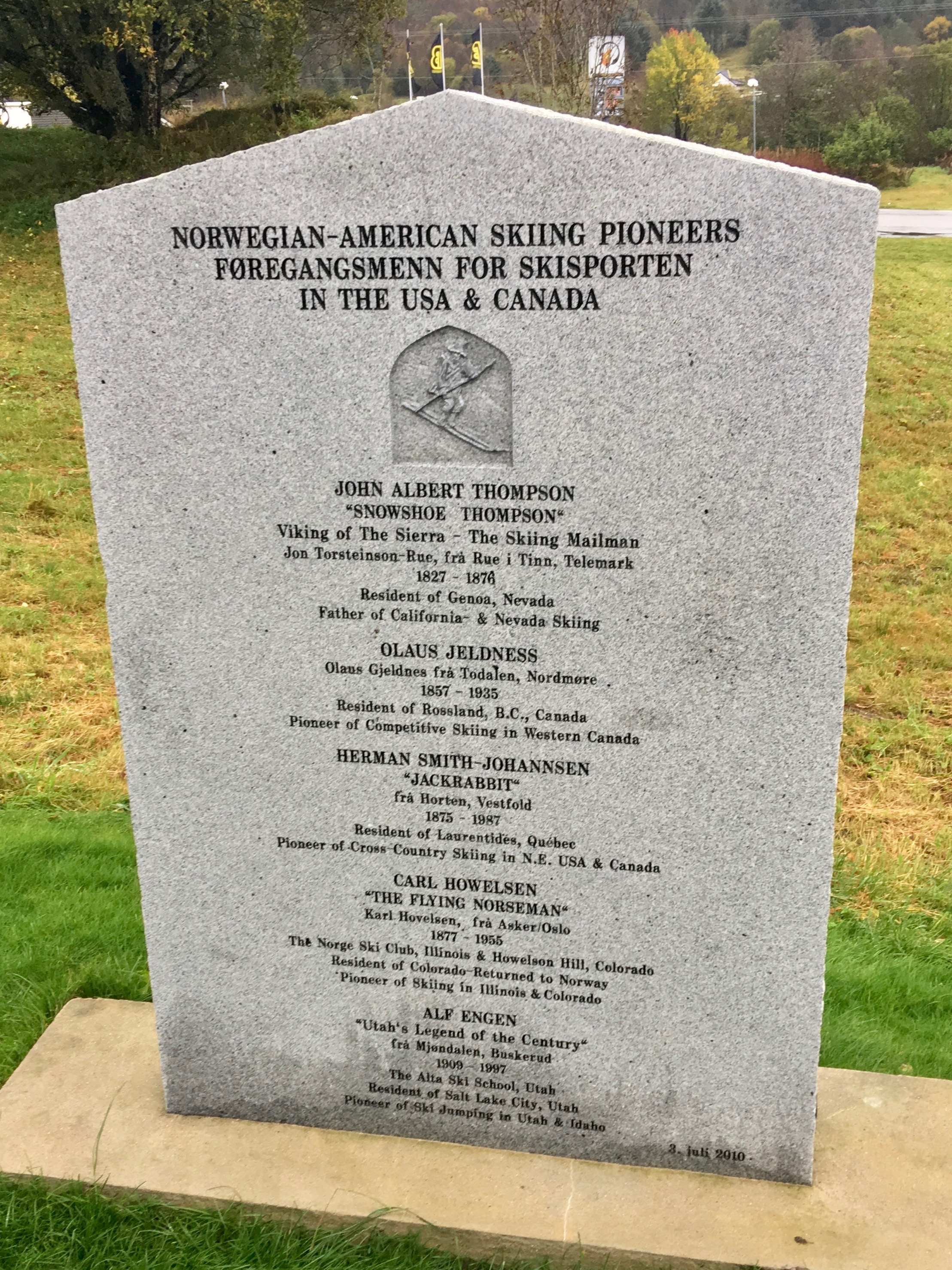 Memorial stone by "Emigrantkyrkja/Emigrantkirken" (former Brampton Lutheran Church, North Dakota) at "Vestnorsk utvandringssenter/utvandrarsenter" (Western Norway Emigration Center) in Radøy, Hordaland, Norway: "Norwegian-American skiing pioneers in the USA & Canada". Photo 2017-10-03